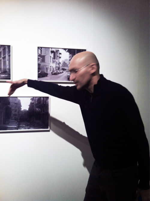 Walid Raad discussing his works at the Hasselblad Foundation in Göteborg, November, 2011